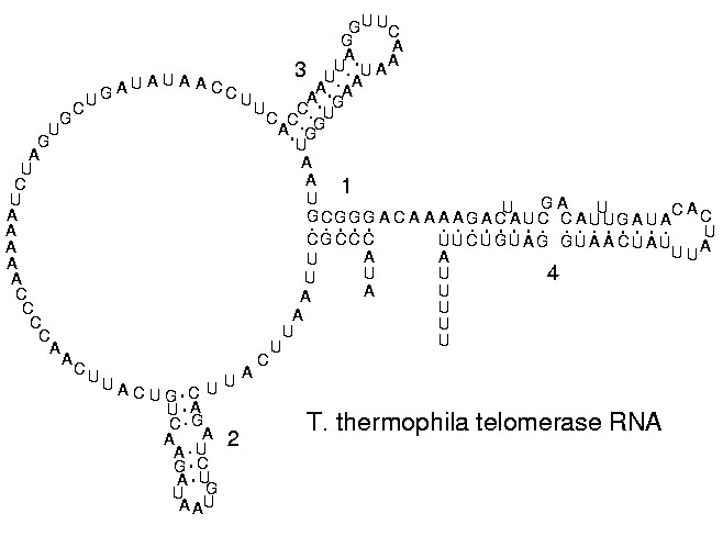 Secondary structure of a ciliate telomerase RNA. See legend. Source: Cropped version of Image:RF00025.jpg See its Rfam page for more info.